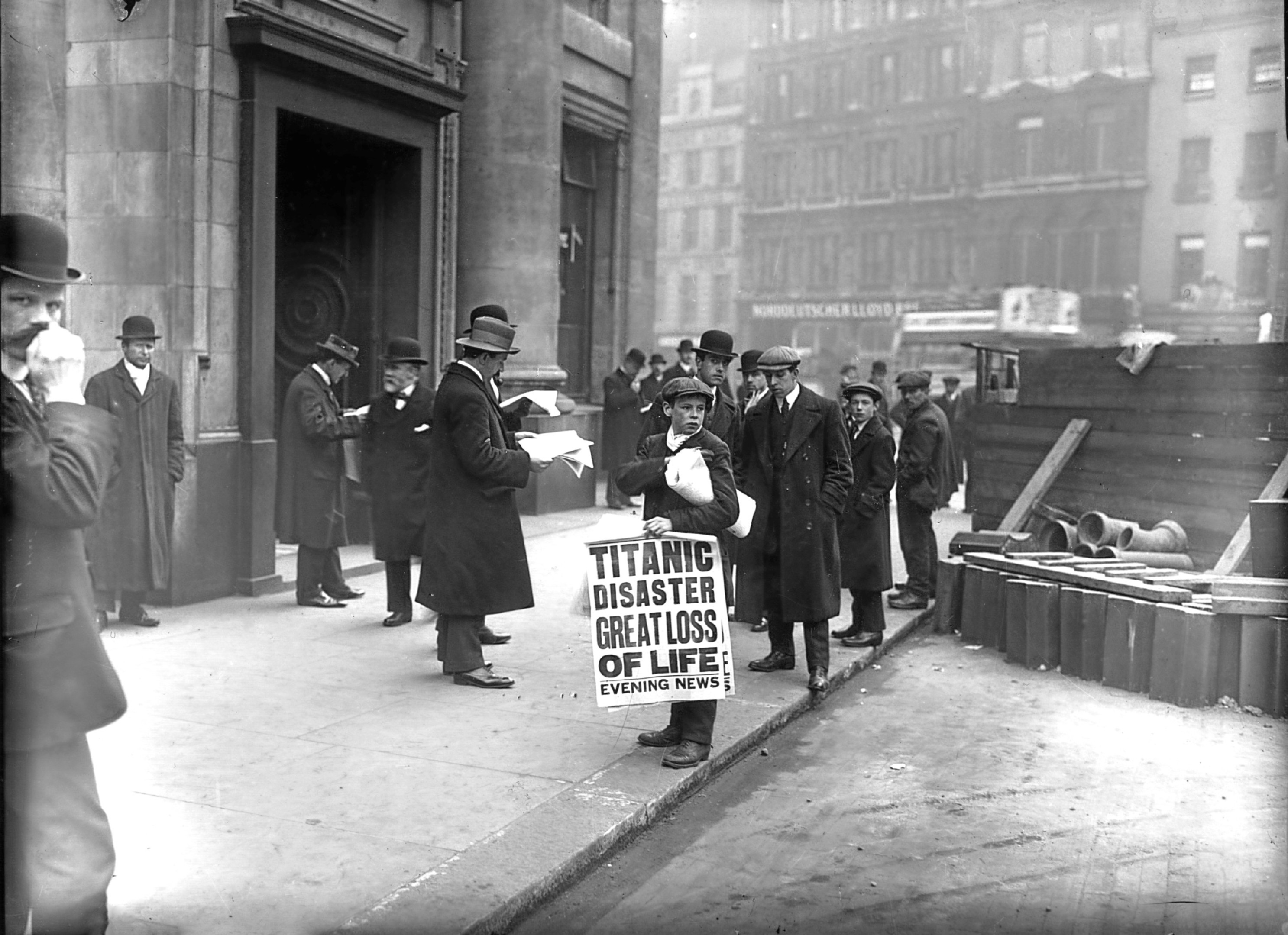 Ned Parfett, paperboy, outside the White Star Line offices in London, April 16, 1912